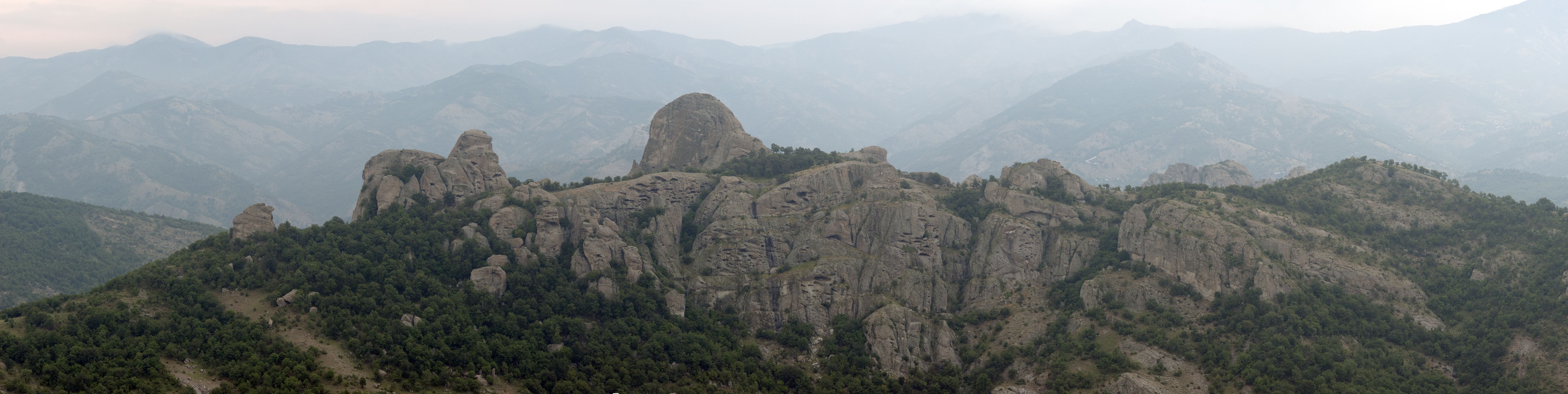 Thrakika meteora, north of Iasmos, Rhodope, Greece.